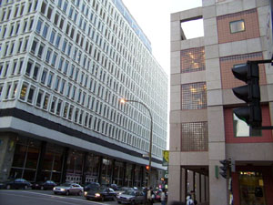 Hall Building and McConnell Library Building, Sir George Williams Campus, Concordia University, Montreal. Version of a photo appearing on Montréalais's website ; this version released by him under GNU FDL.